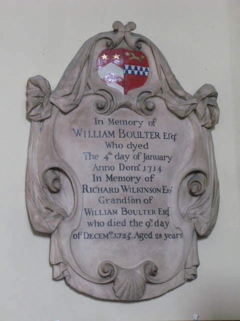 St. Nicholas' Church, Deptford Green, SE8 - memorial plaque, 1714